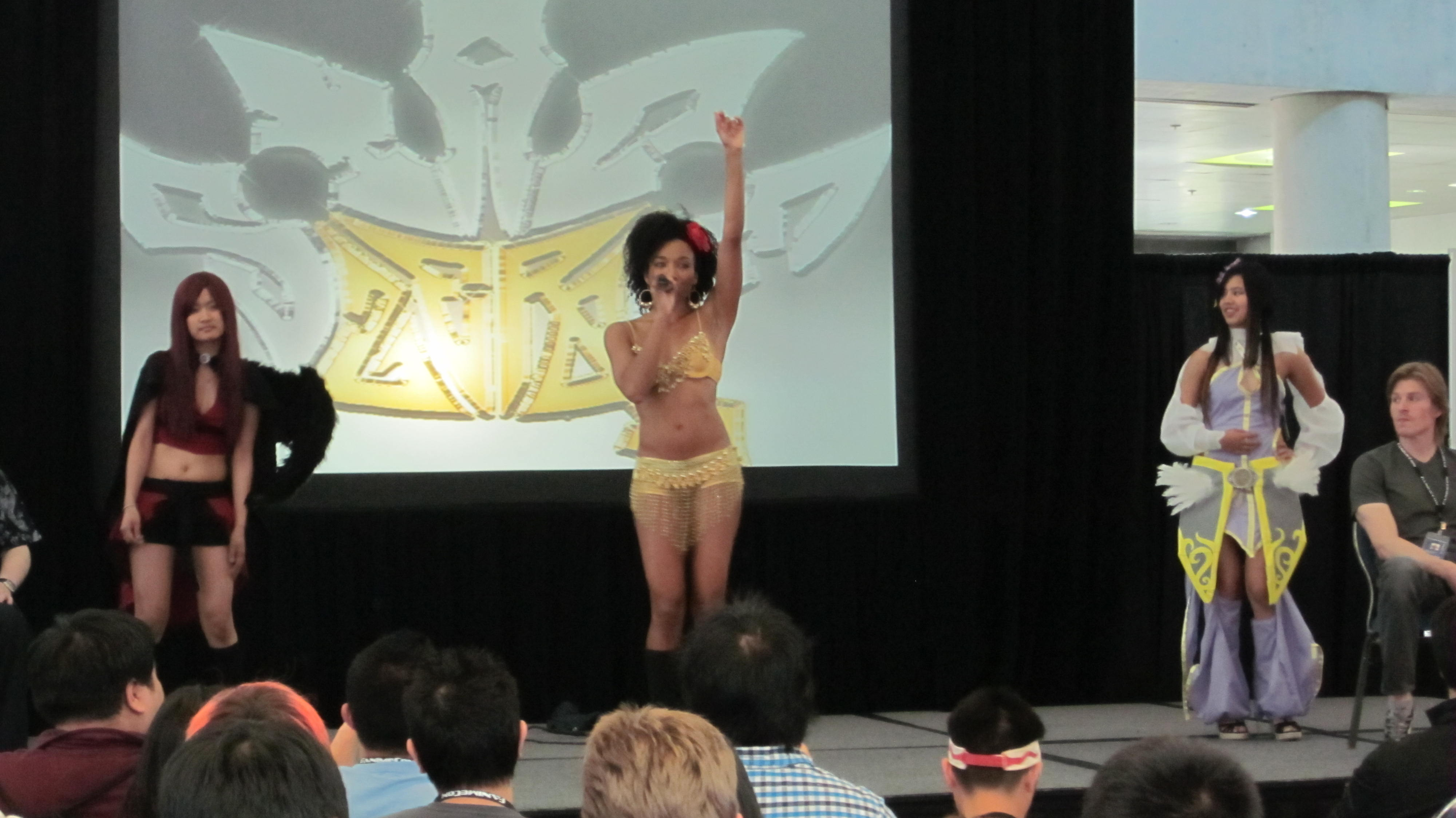 Actress Karen Dyer performs at Stage Zero at FanimeCon 2010 in San Jose, California.